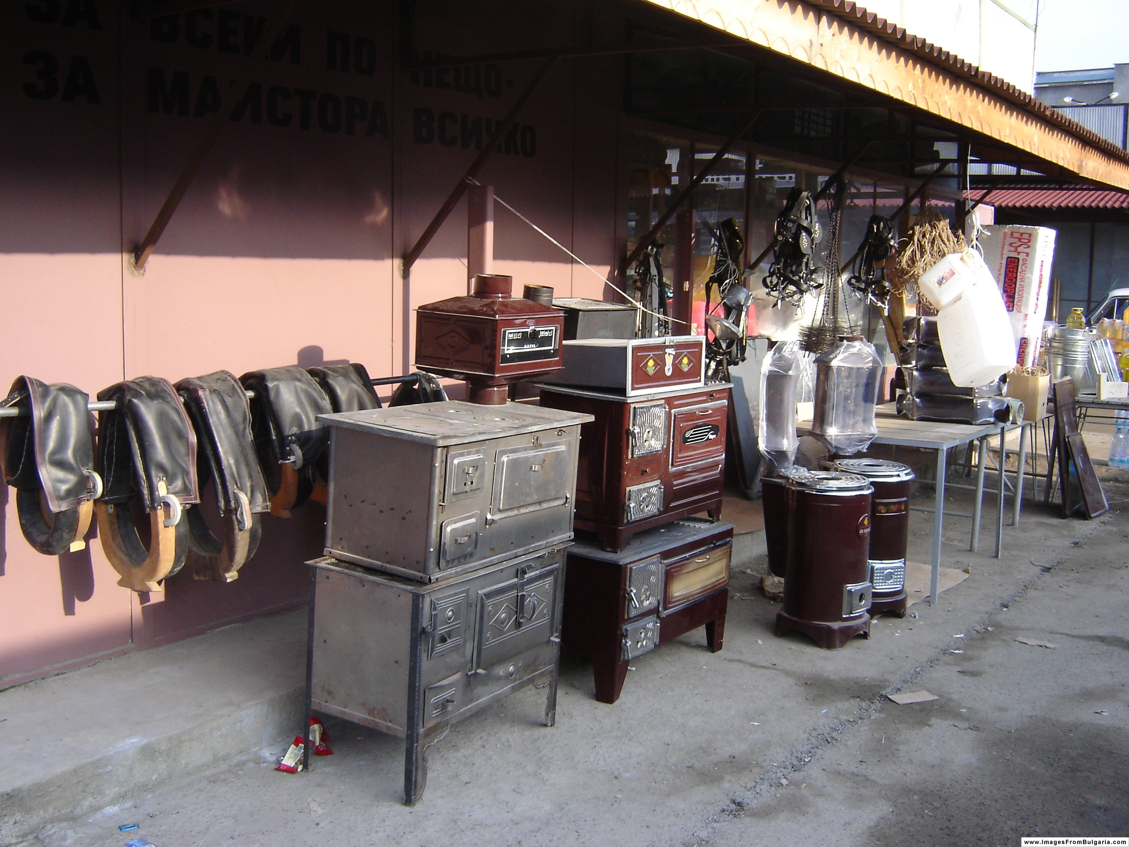 The town market